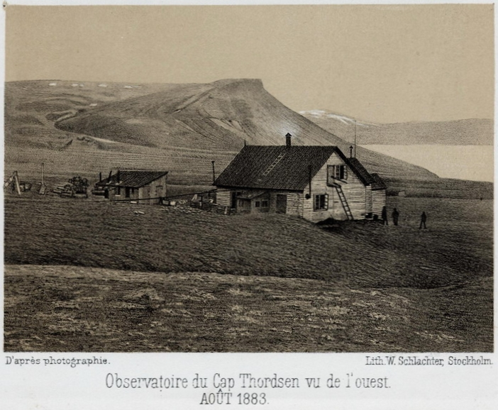 Svenskehuset, rear view, Spitsbergen, Cape Thordsen in Isfjorden (a Norwegian archipelago in the Arctic Ocean). This is the site of the Svenskehuset Tragedy in 1872–73.